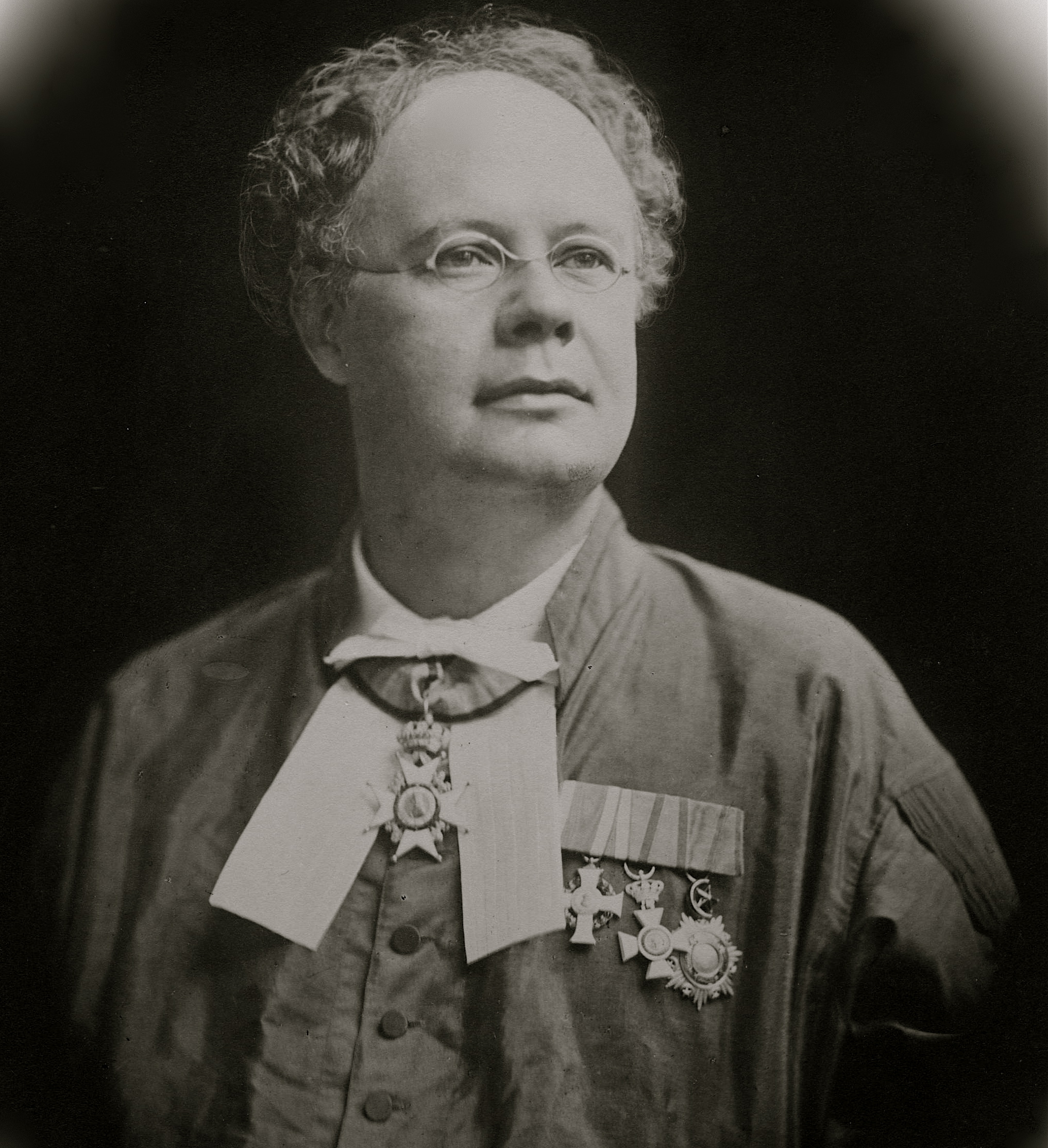 A photo of my ancestor von Winckel